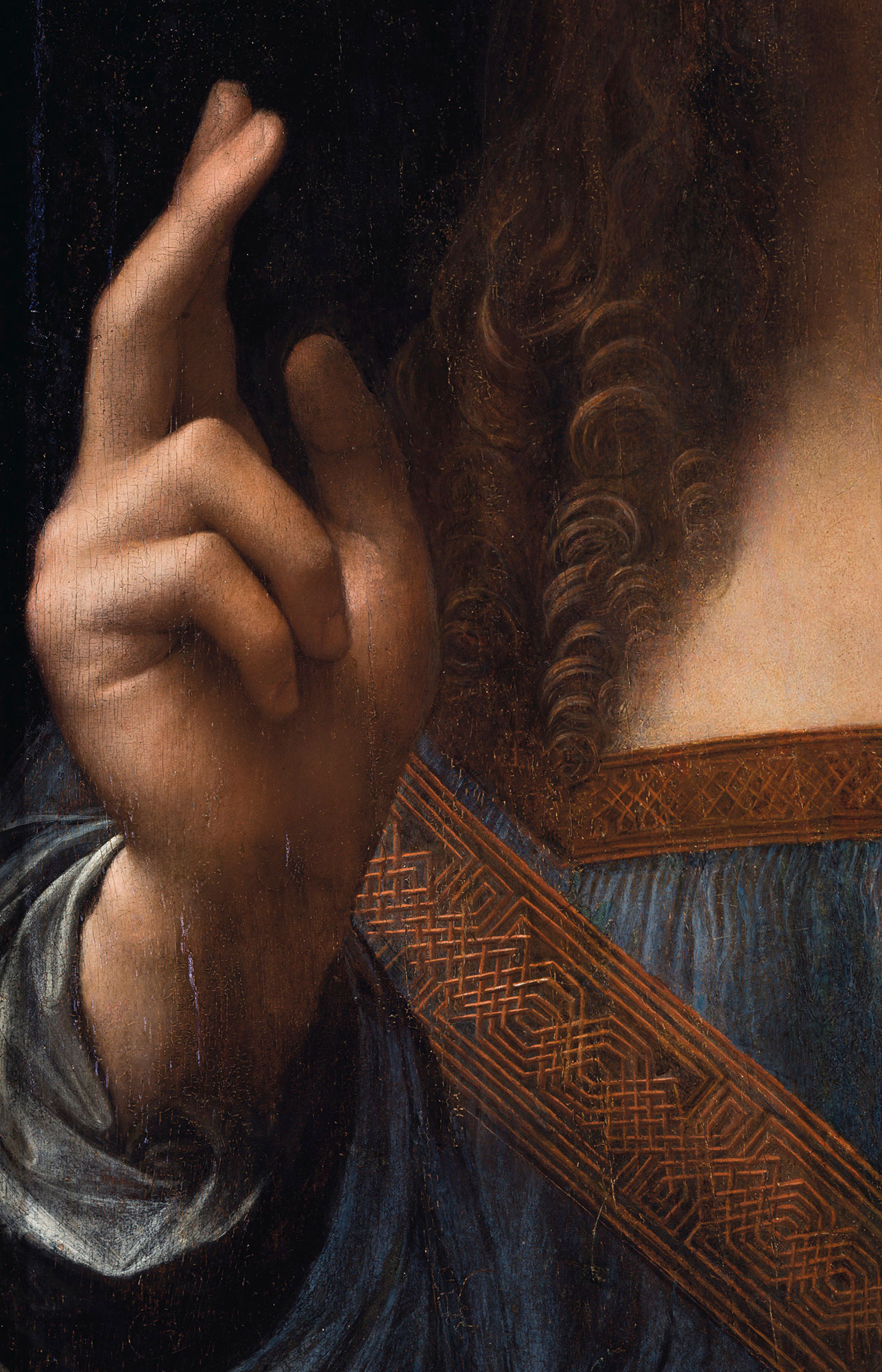 Leonardo da Vinci, Salvator Mundi. The painting was sold at Christie's New York, November 15, 2017, for $450.3 million, making it the most expensive painting ever sold.